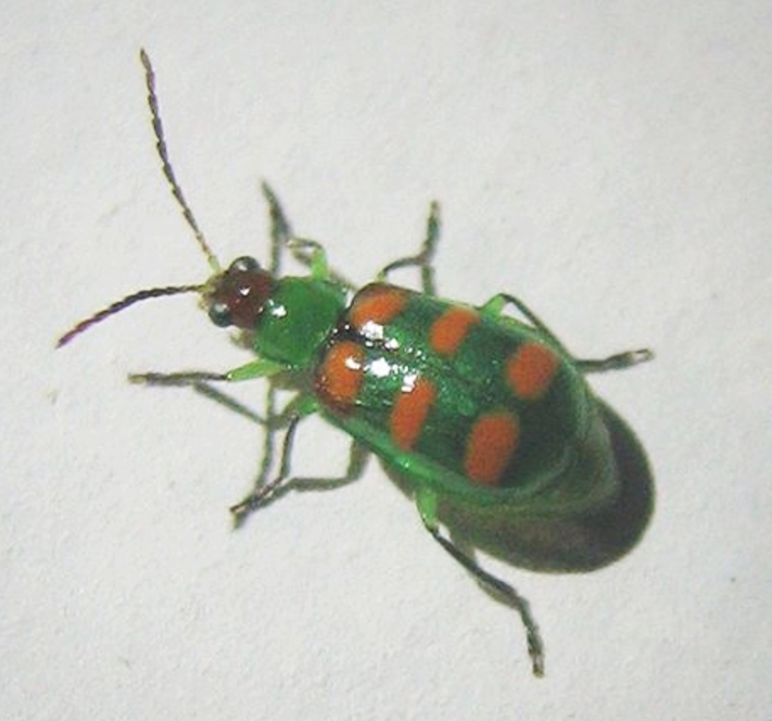 Diabrotica speciosa photographed in Brazil.